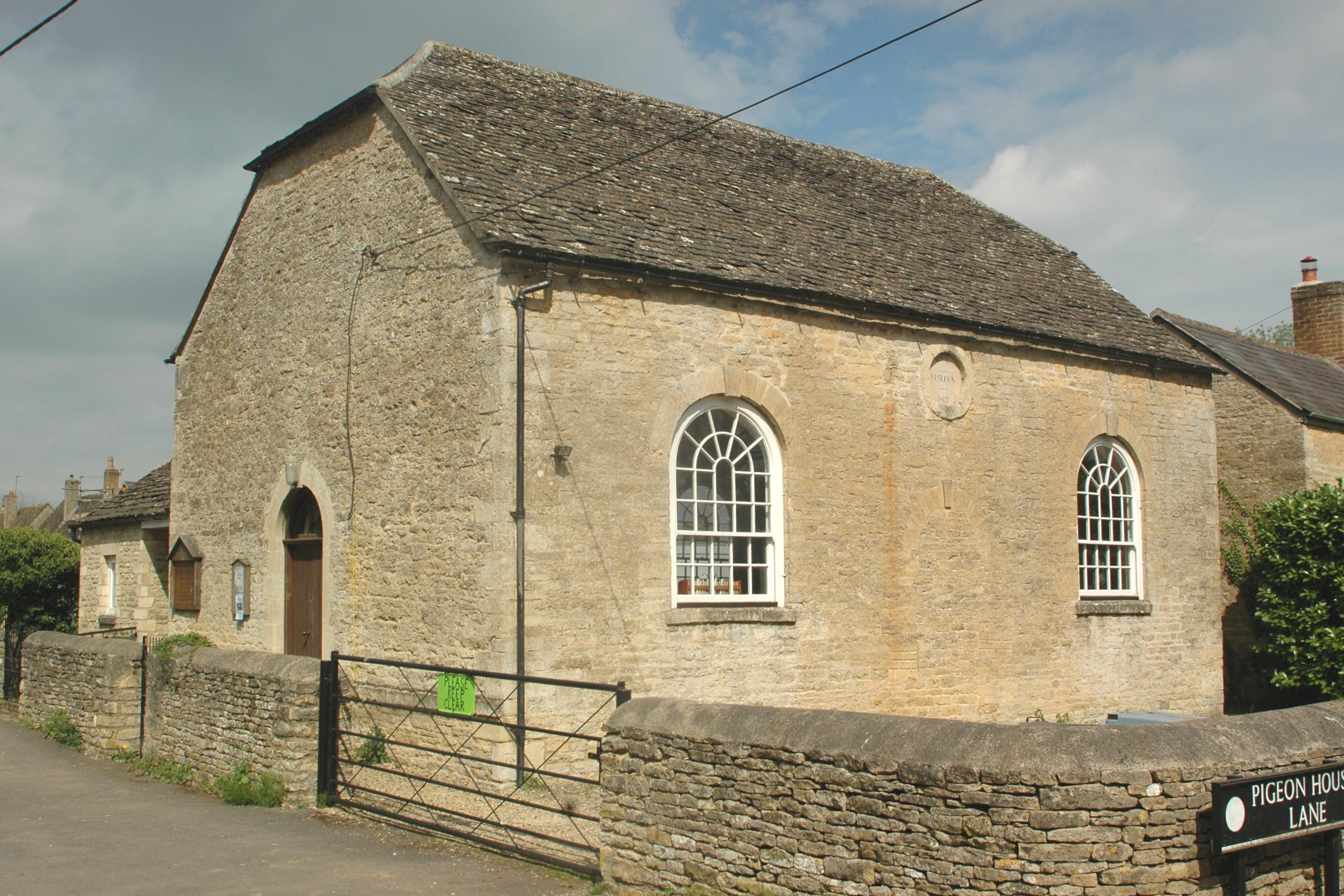 Methodist Church at Freeland, Oxfordshire, viewed from the southwest.